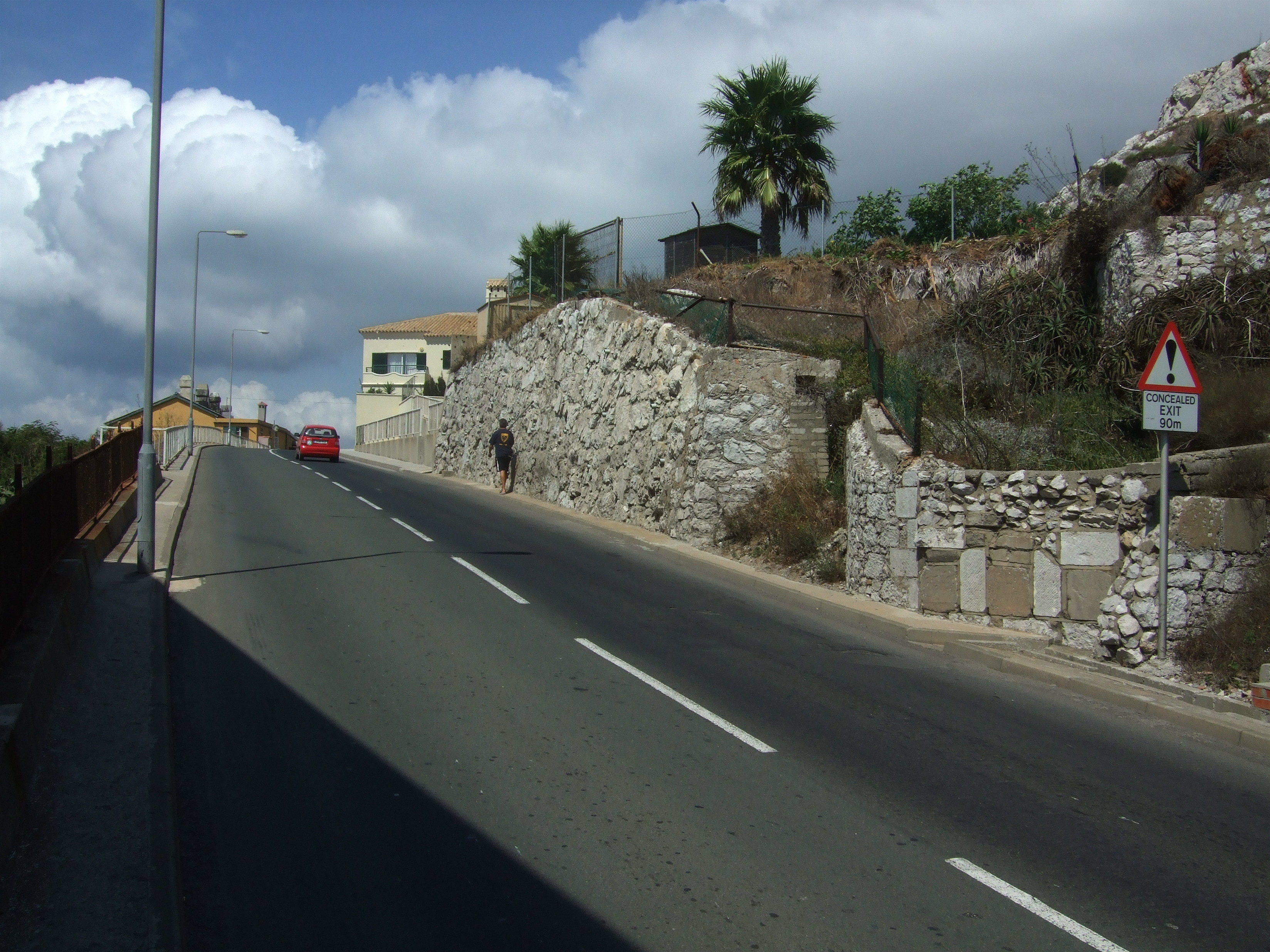 Europa Road, Gibraltar. The road back to the town centre.